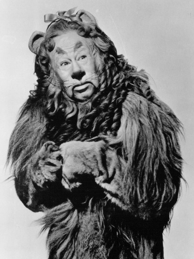 Publicity photo of American entertainer, Bert Lahr promoting his role as the Cowardly Lion in the 1939 feature film, The Wizard of Oz.